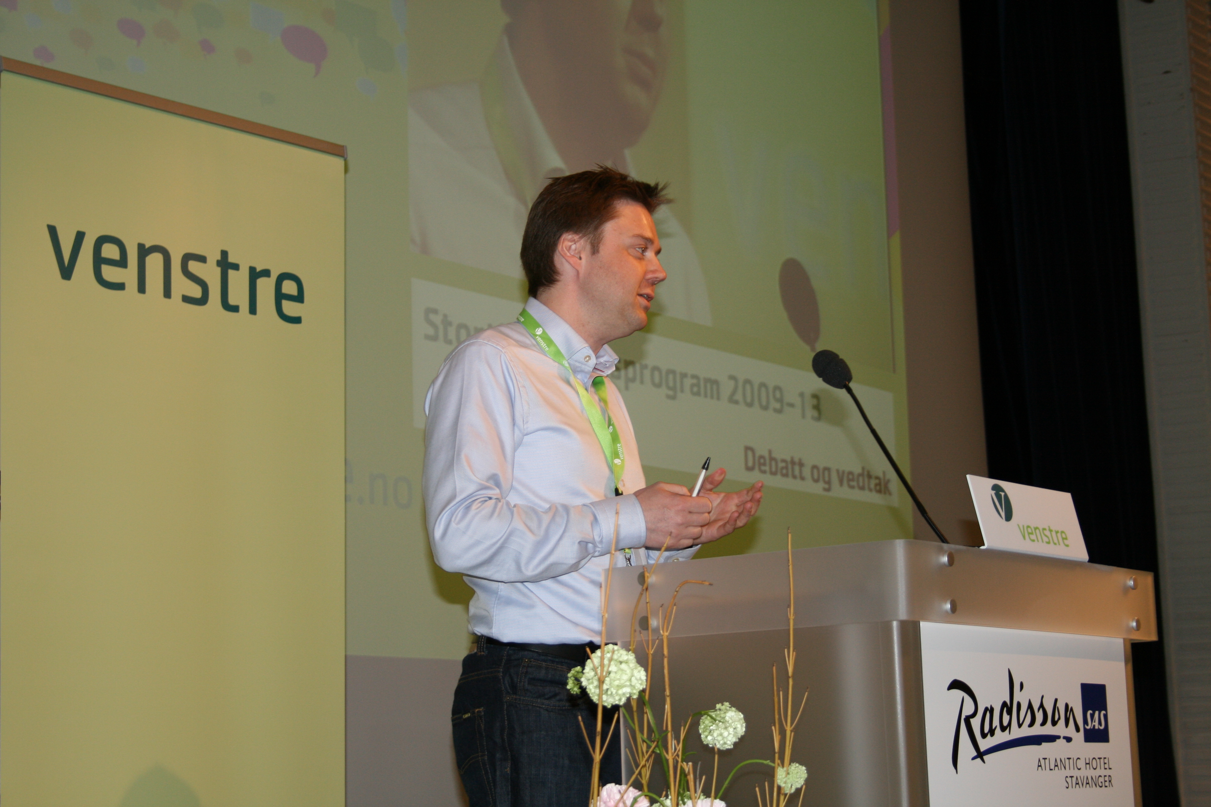 Foto: Christoffer Biong